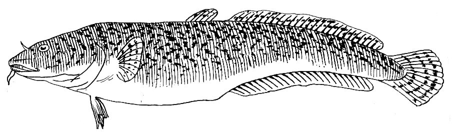 line art drawing